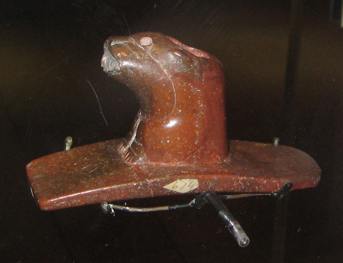 North American stone pipe representing an otter. From Mound City, Ohio, North America. Middle Woodland period, Ohio Hopewell culture, 200 BC - AD 100.